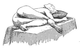 This is a patient position for gynecological examination and surgery, for lumbar spine surgery, for rectal examination and treatments, and for the administration of enemas. It is named after the gynaecologist J. Marion Sims.